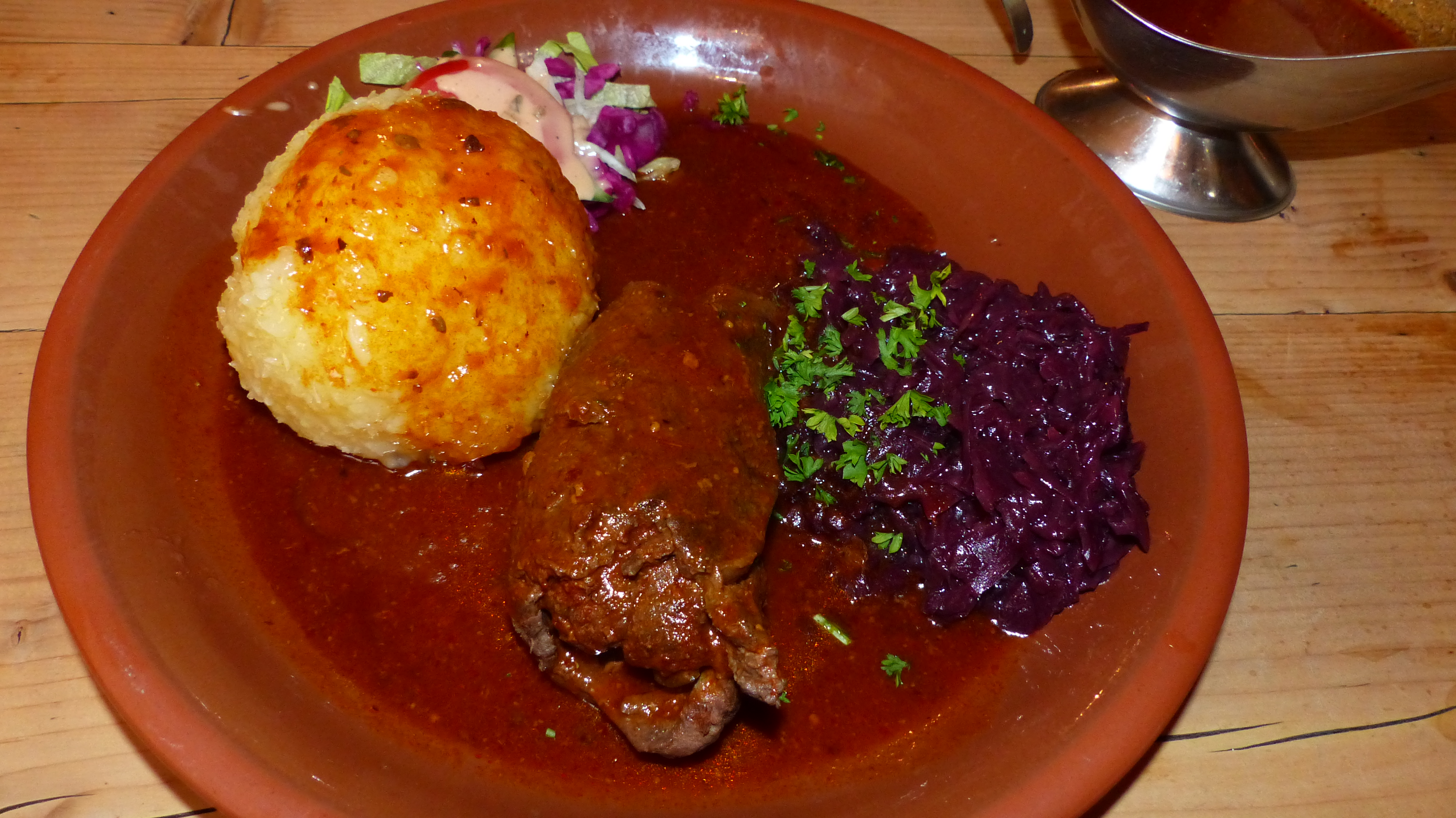 WLM-Fototour Erfurt 2014 Dieses Foto wurde im Rahmen der WLM-Fototour 2014 in Erfurt erstellt, die vom 29. bis 31. August 2014 zum Auftakt des Wettbewerbs Wiki Loves Monuments 2014 statt fand. The making of this document was supported by the Community-Budget of Wikimedia Germany.